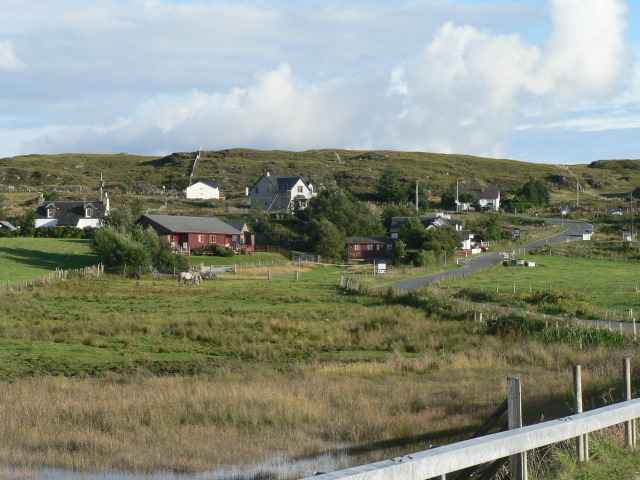 Looking south at the straggling houses of Back of Keppoch.